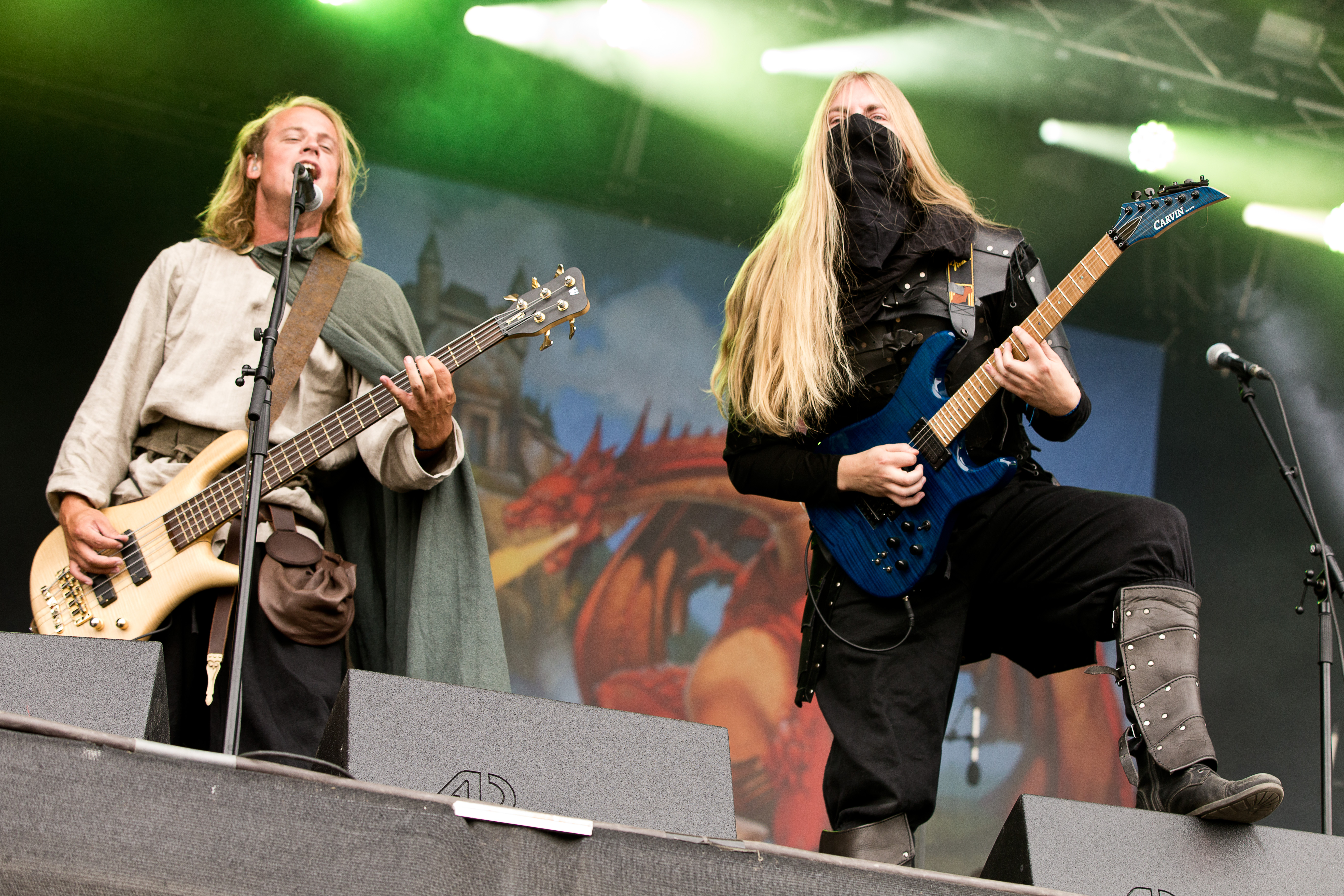 The Swedish power metal band Twilight Force at the Rockharz Open Air 2016 in Ballenstedt/Germany.